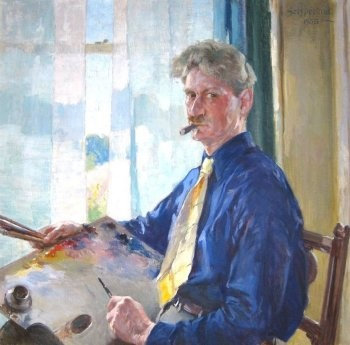 Selfportrait